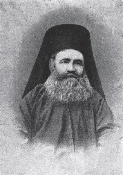 Portrait of bulgarian arhimandrit Hariton Karpuzov, bulgarian national enlighter